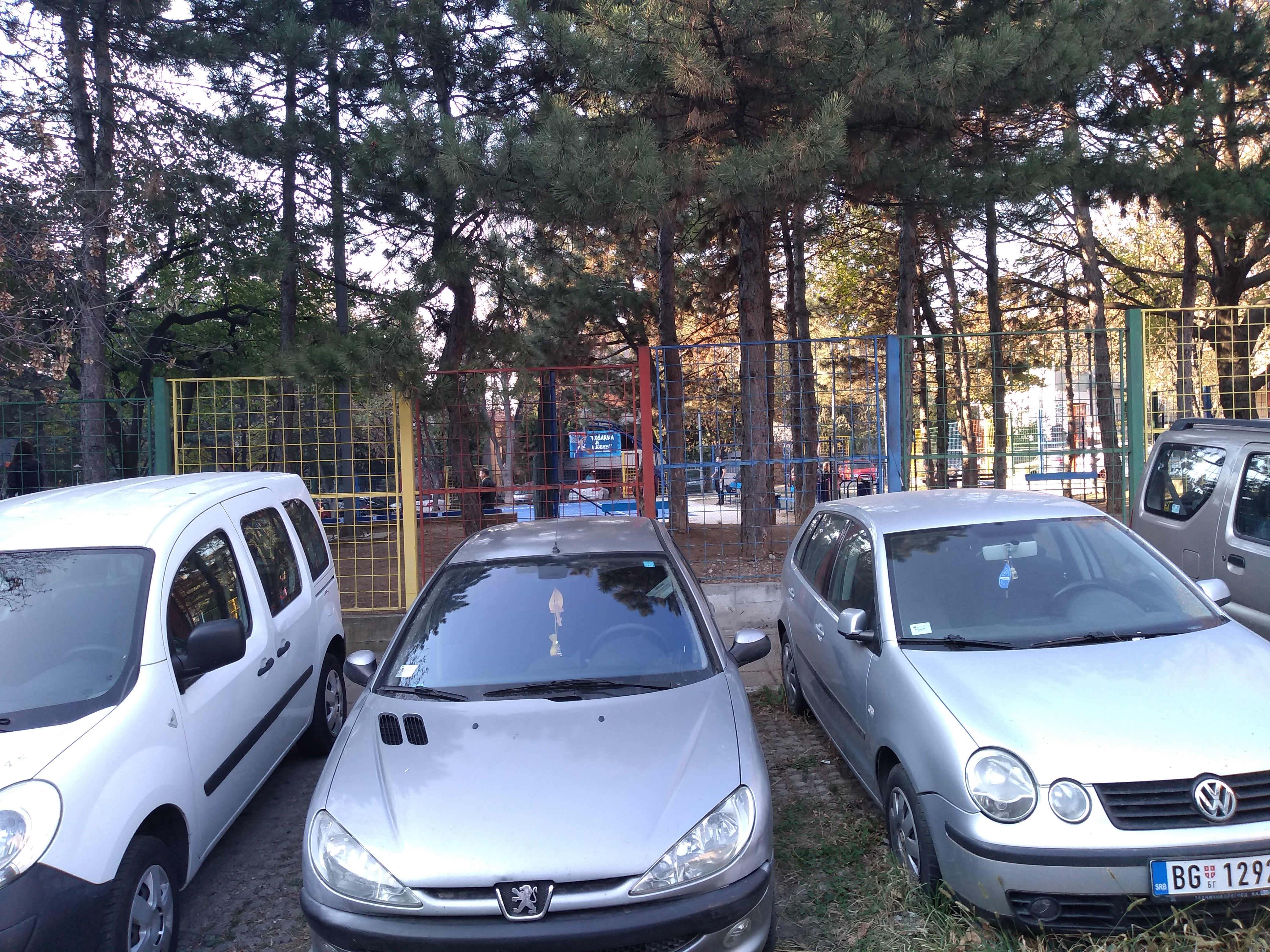 Street Spase Garde, Belgrade, Serbia